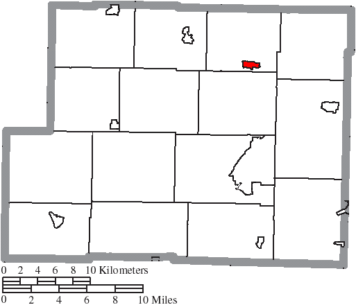 Map of the municipal and township boundaries of Harrison County, Ohio, United States, as of the 2000 census, with the location of the village of Jewett highlighted. Township borders are shown only in unincorporated areas in order to differentiate incorporated and unincorporated areas more clearly.